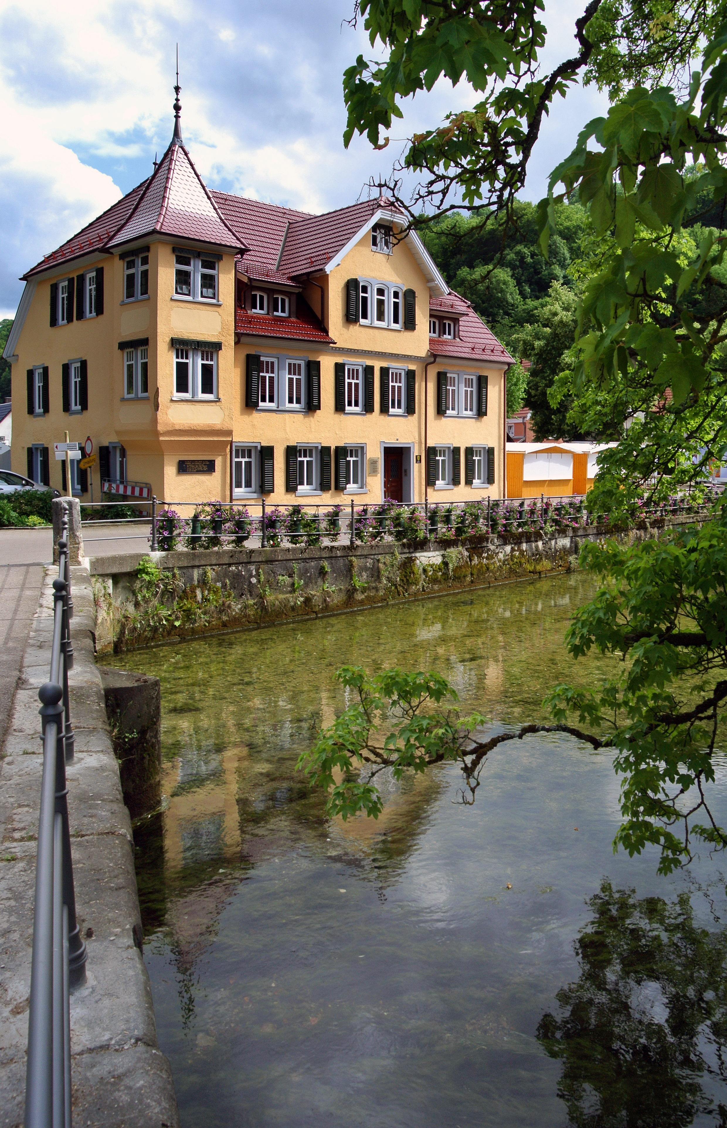 Memorial for the Hitler-assassin, Georg Elser in Königsbronn.